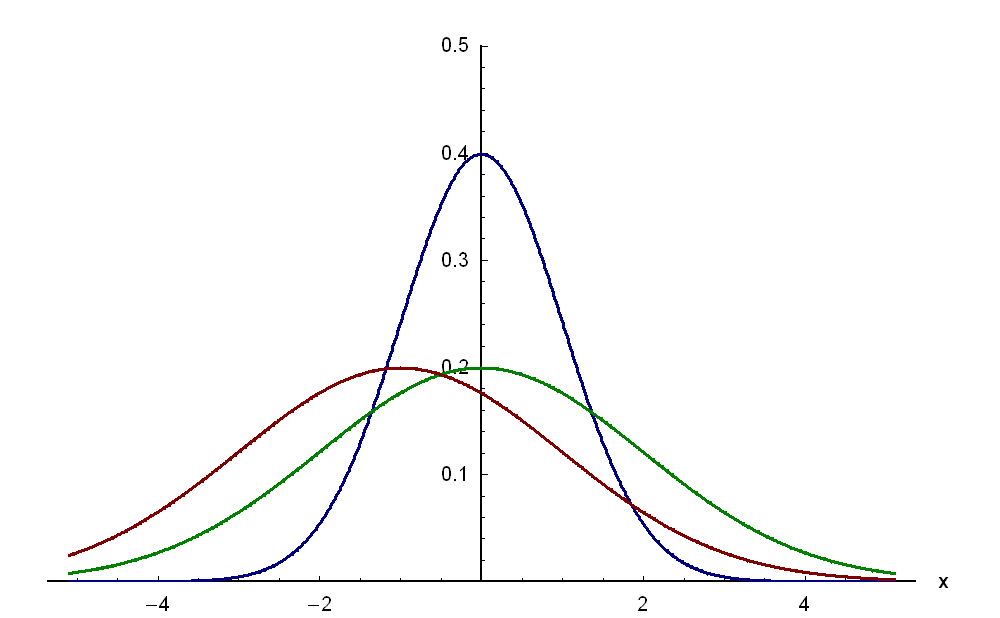 Normal Distribution